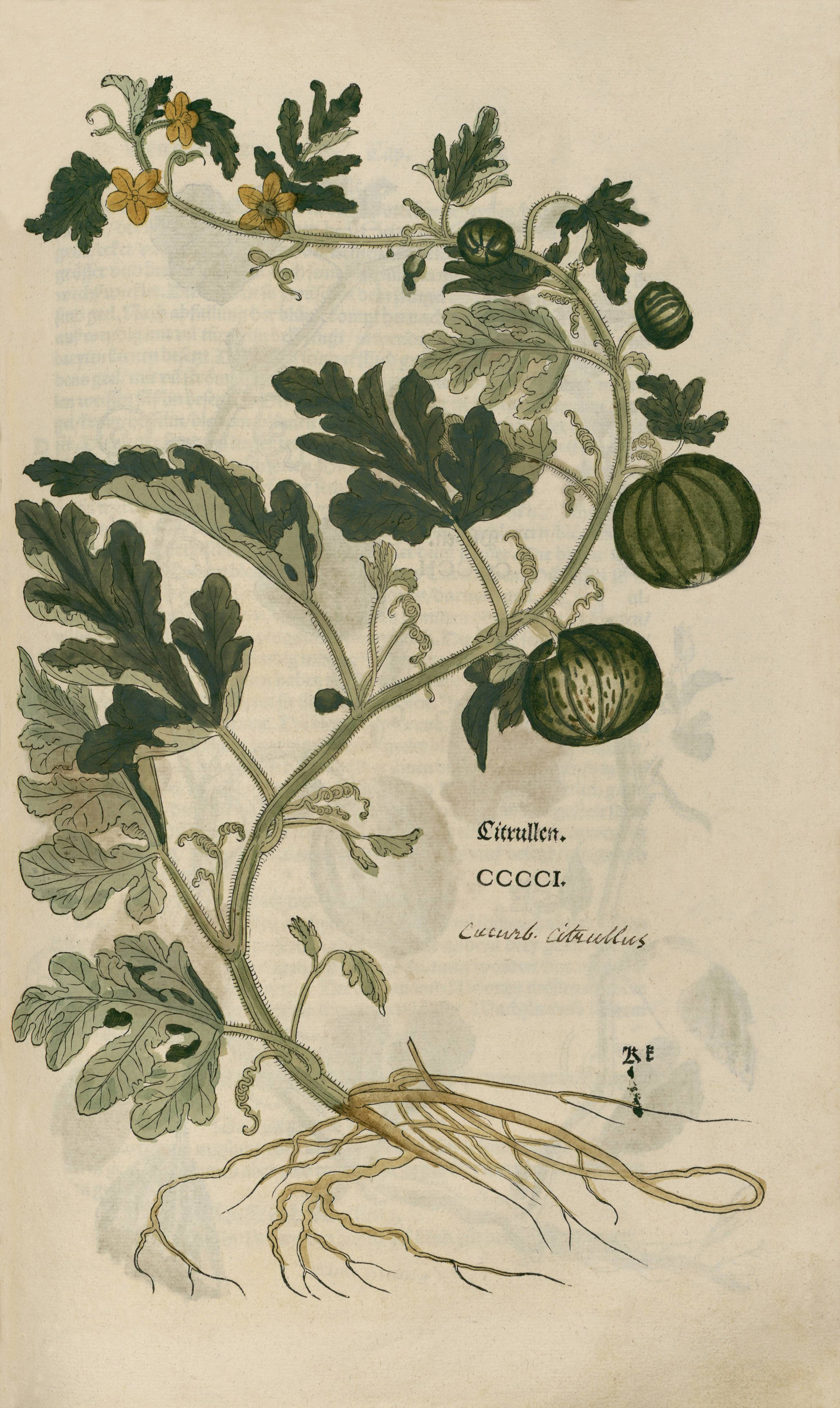 Citrullen - Citrullus lanatus, image 692